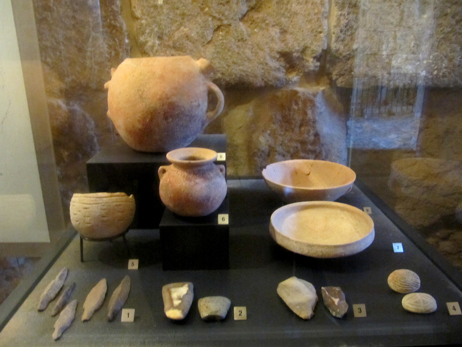 Museam inside the Crusader Castle in Byblos, Lebanon